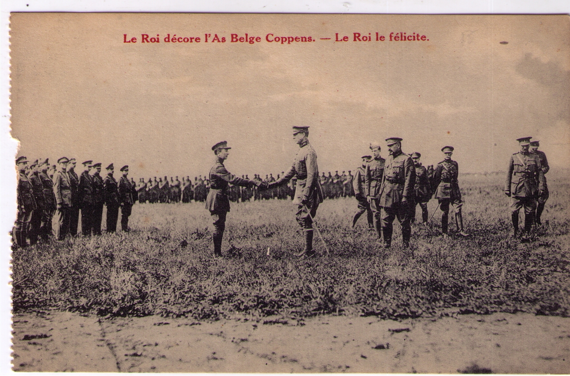 King Albert I of Belgium, congratulates the ace Willy Coppens with his medal.